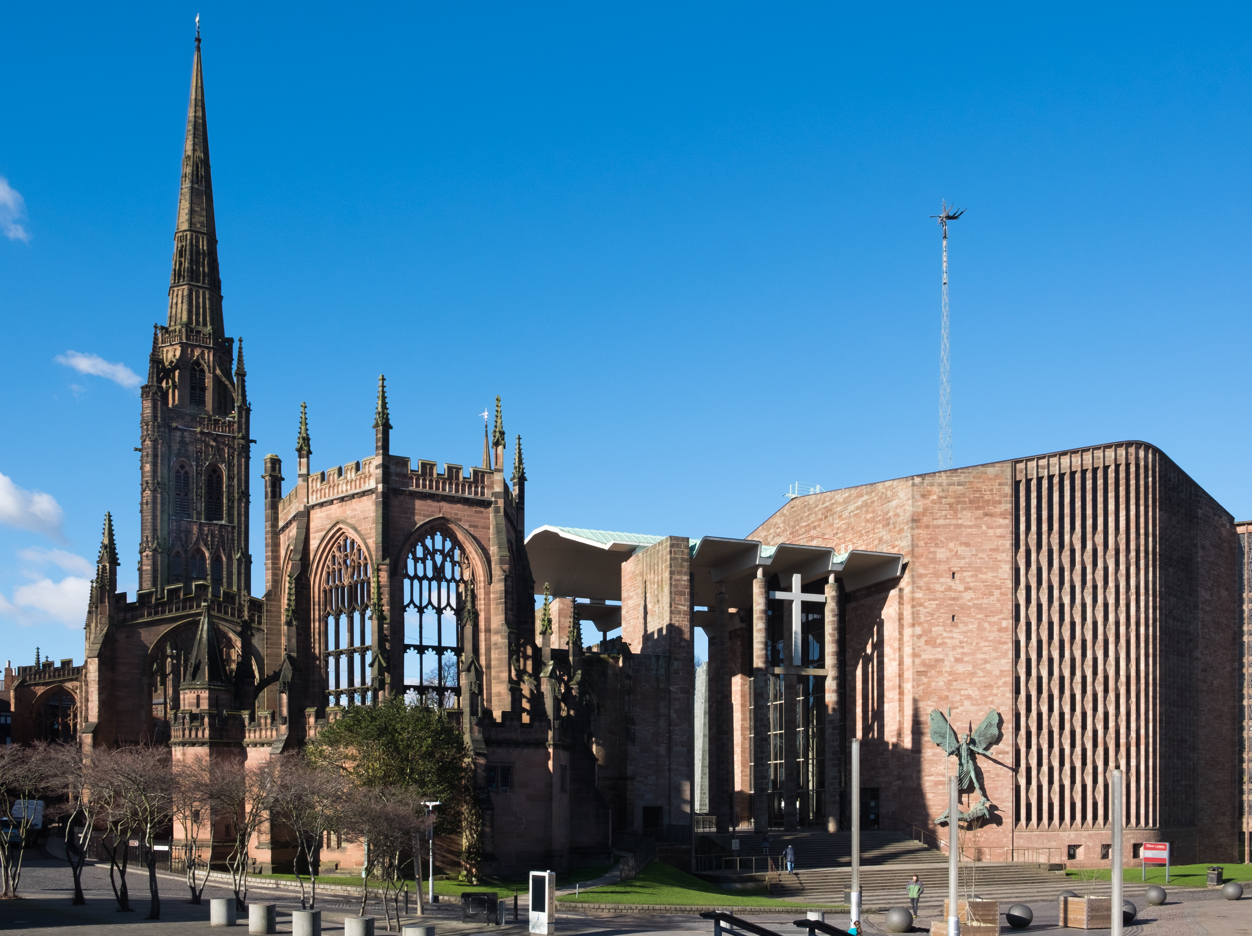 Coventry Cathedral comprising the war-ruined 14th-century St Michael's Cathedral on the left (its 90-metre spire survived intact) and the 1960s Cathedral Church of St Michael on the right. Both are grade I listed buildings in England.